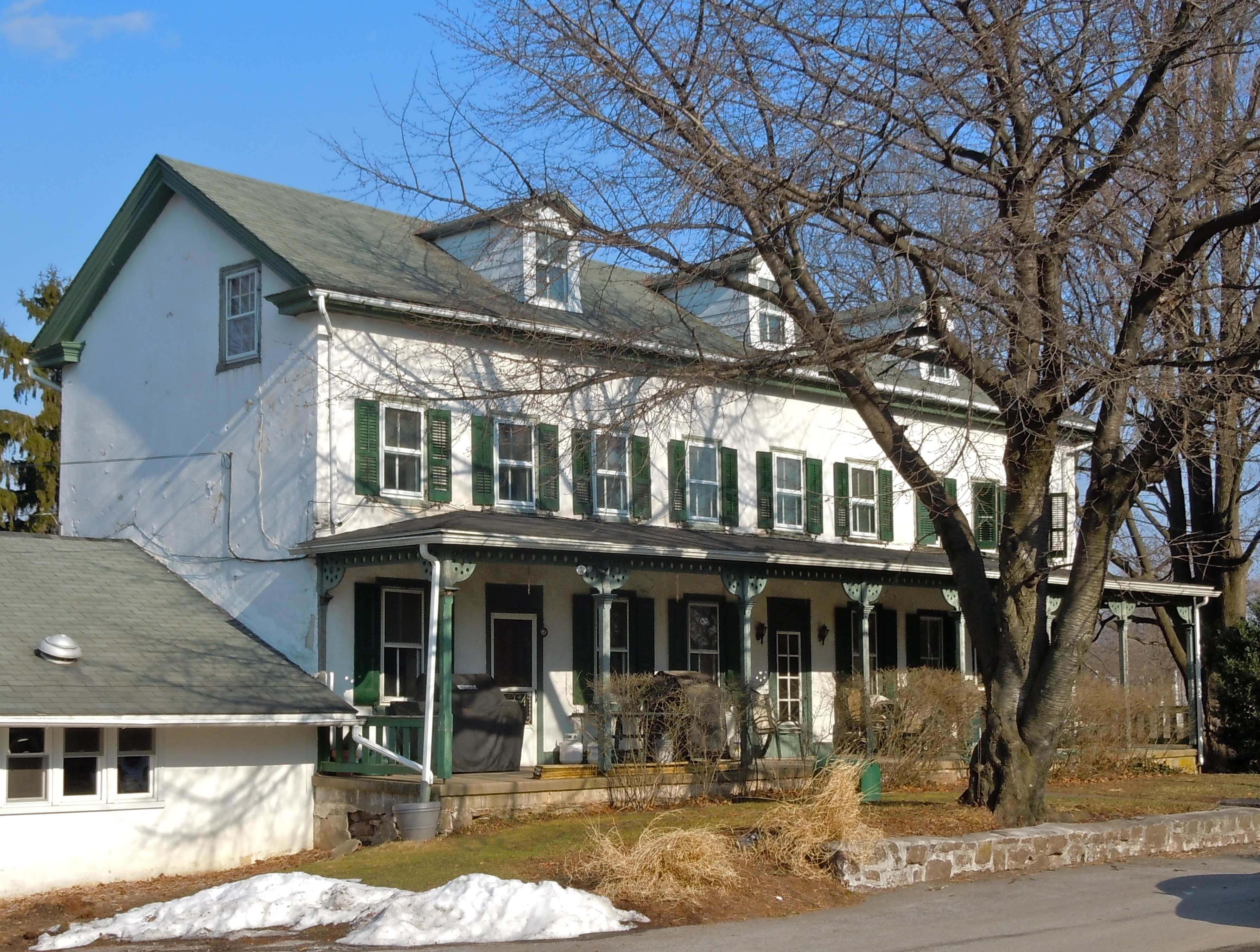 Moses Coates Jr. Farm on the NRHP since May 3, 1984. At 1416 State Road, Schuykill Township, Chester County, Pennsylvania (near Pheonixville). Important Underground Railroad site, now a golf course clubhouse.